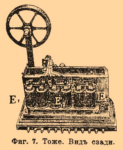 Illustration from Brockhaus and Efron Encyclopedic Dictionary (1890—1907)